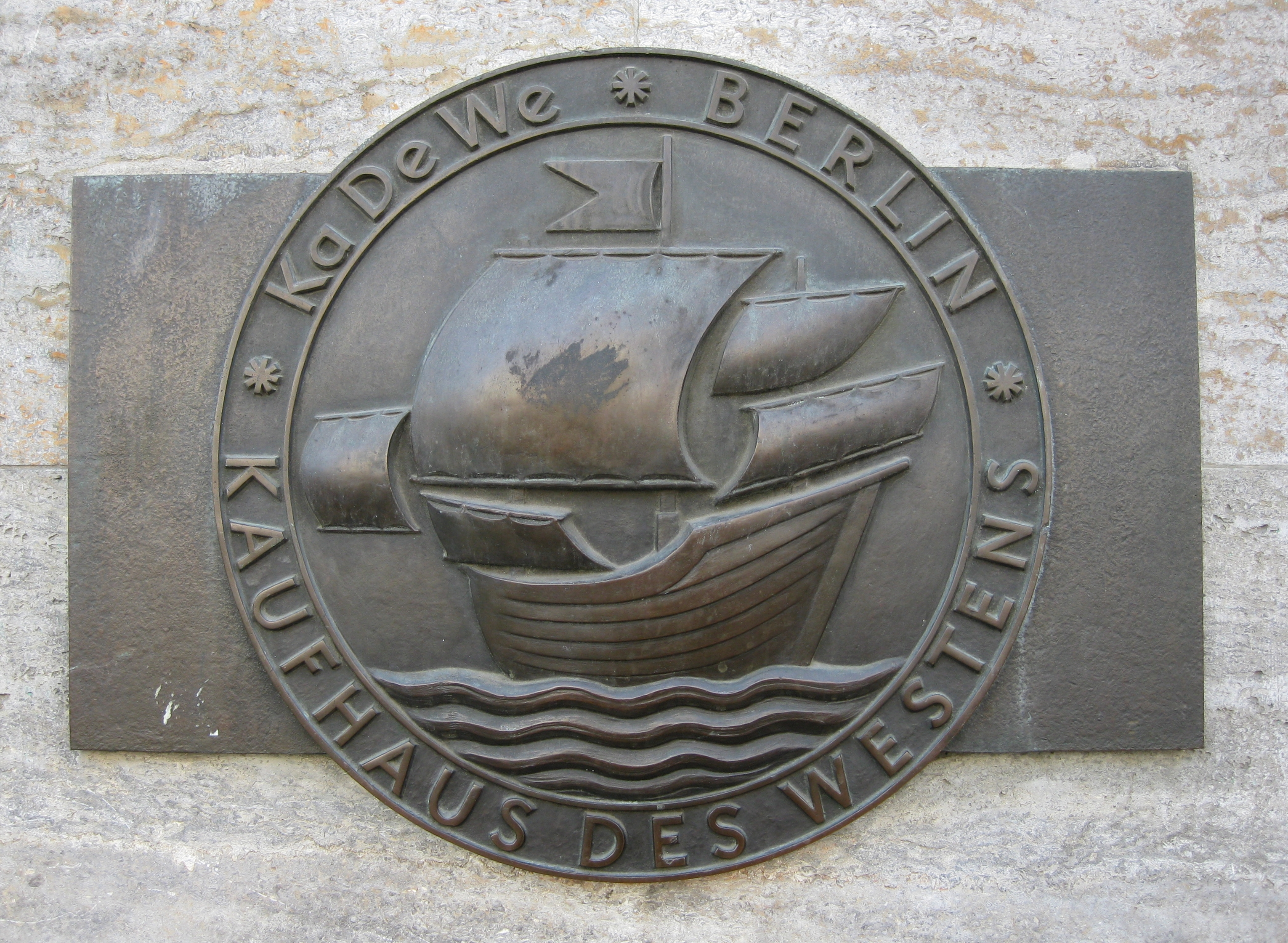 Old logo of the KaDeWe (Kaufhaus des Westens/"Department Store of the West") on the facade next to the main entrance of the headquarters in Berlin, Germany, Tauentzienstraße 21-24